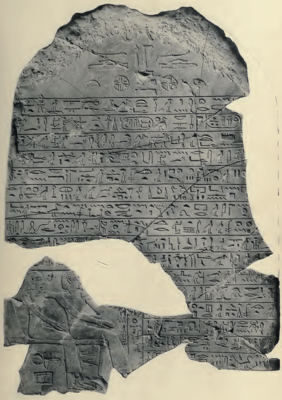 Stele of Djedhotepre Dedumose, 1908 photography by Alessandro Barsanti. Source available online copyright free